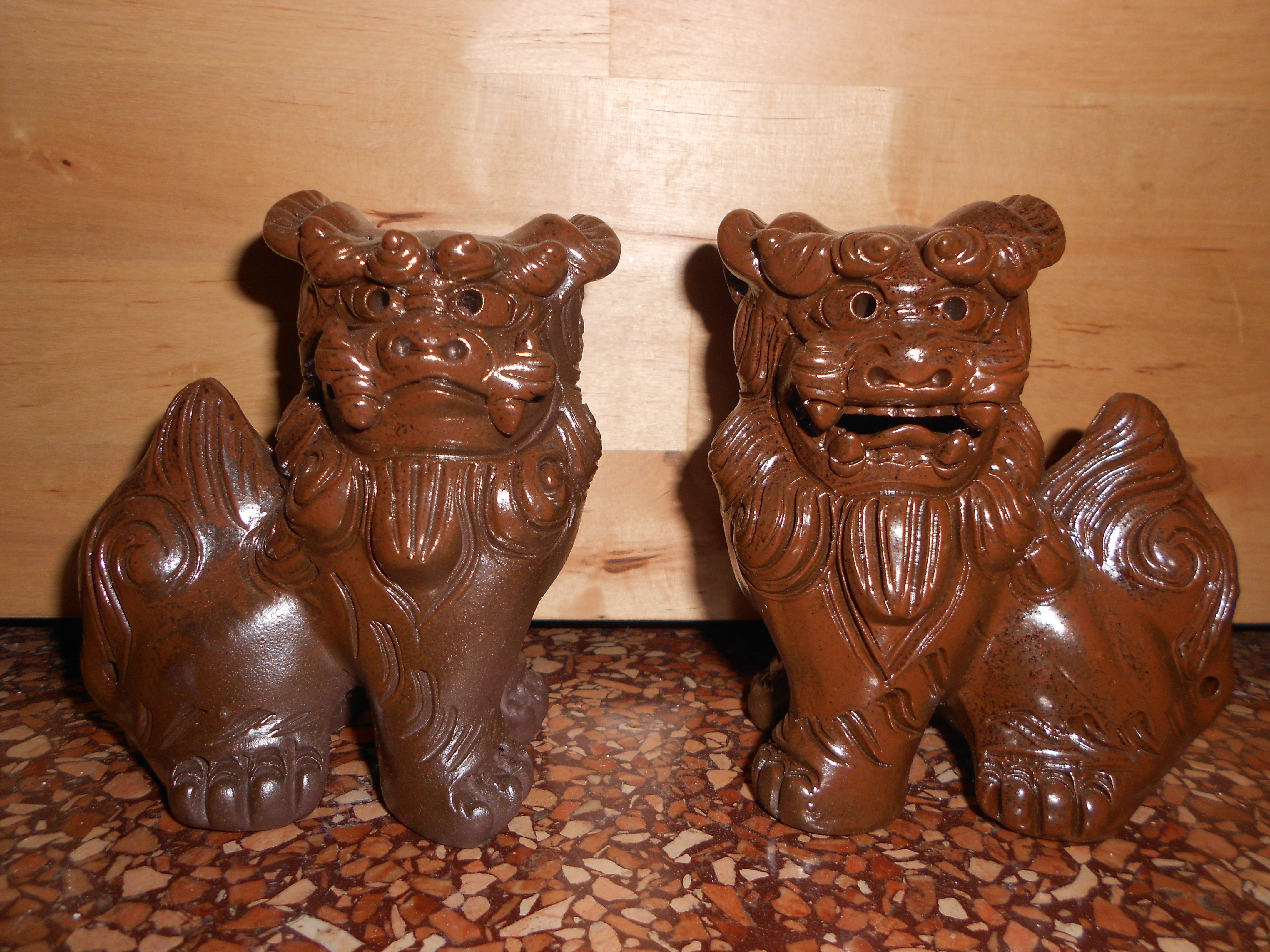 Couple of Shisa